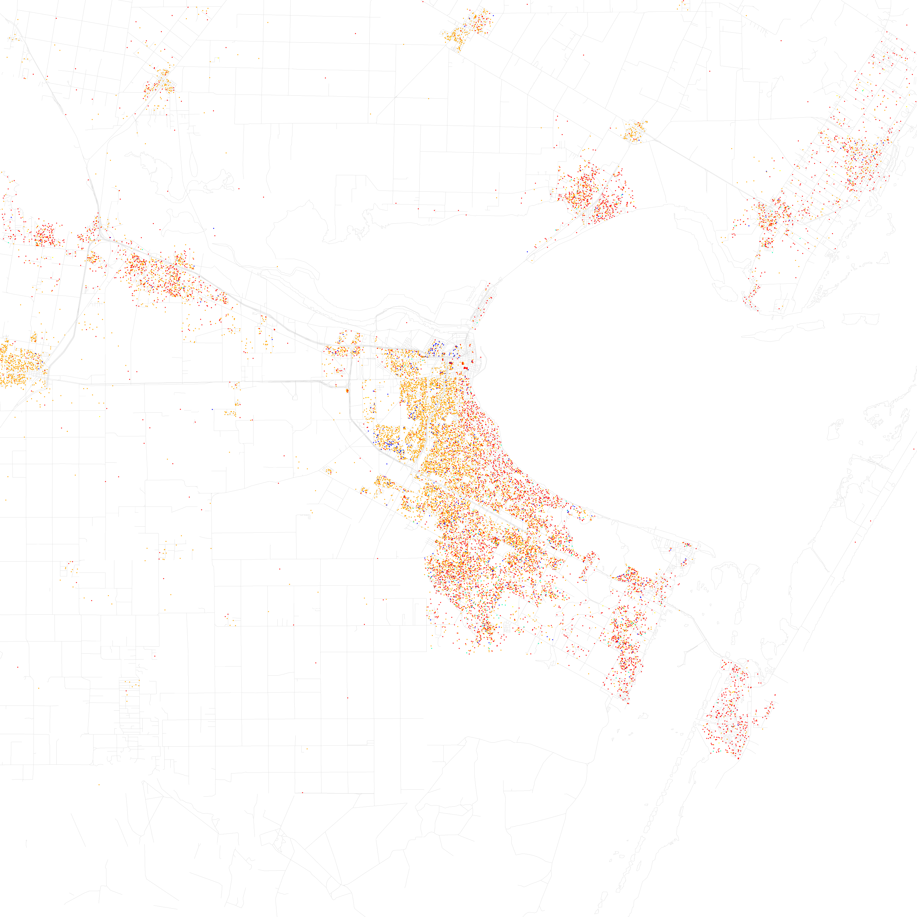 Maps of racial and ethnic divisions in US cities, inspired by Bill Rankin's map of Chicago, updated for Census 2010. Red is White, Blue is Black, Green is Asian, Orange is Hispanic, Yellow is Other, and each dot is 25 residents. Data from Census 2010. Base map © OpenStreetMap, CC-BY-SA